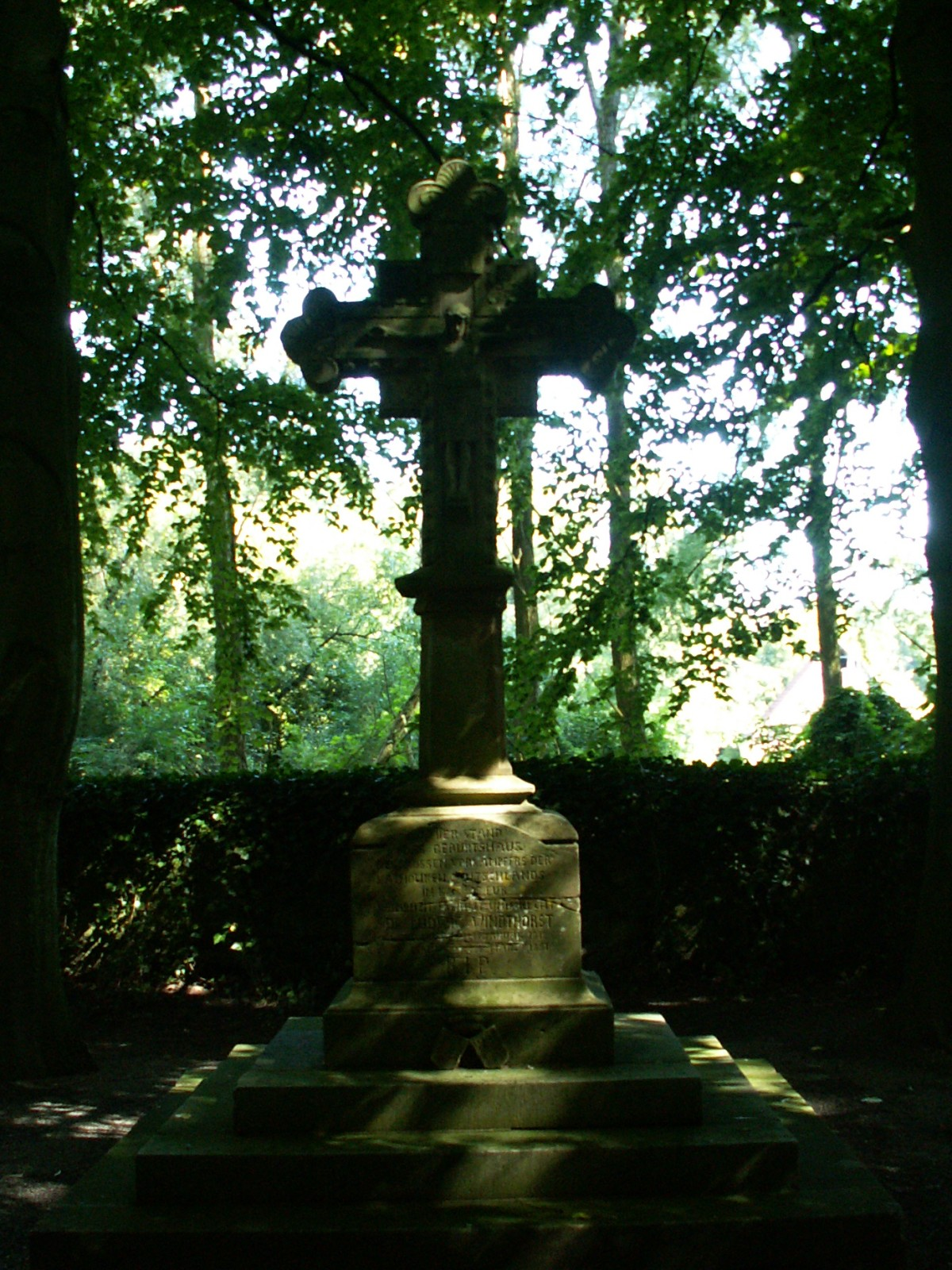 Memorial to Ludwig Windthorst at his place of birth, Gut Caldenhof near Ostercappeln, Germany